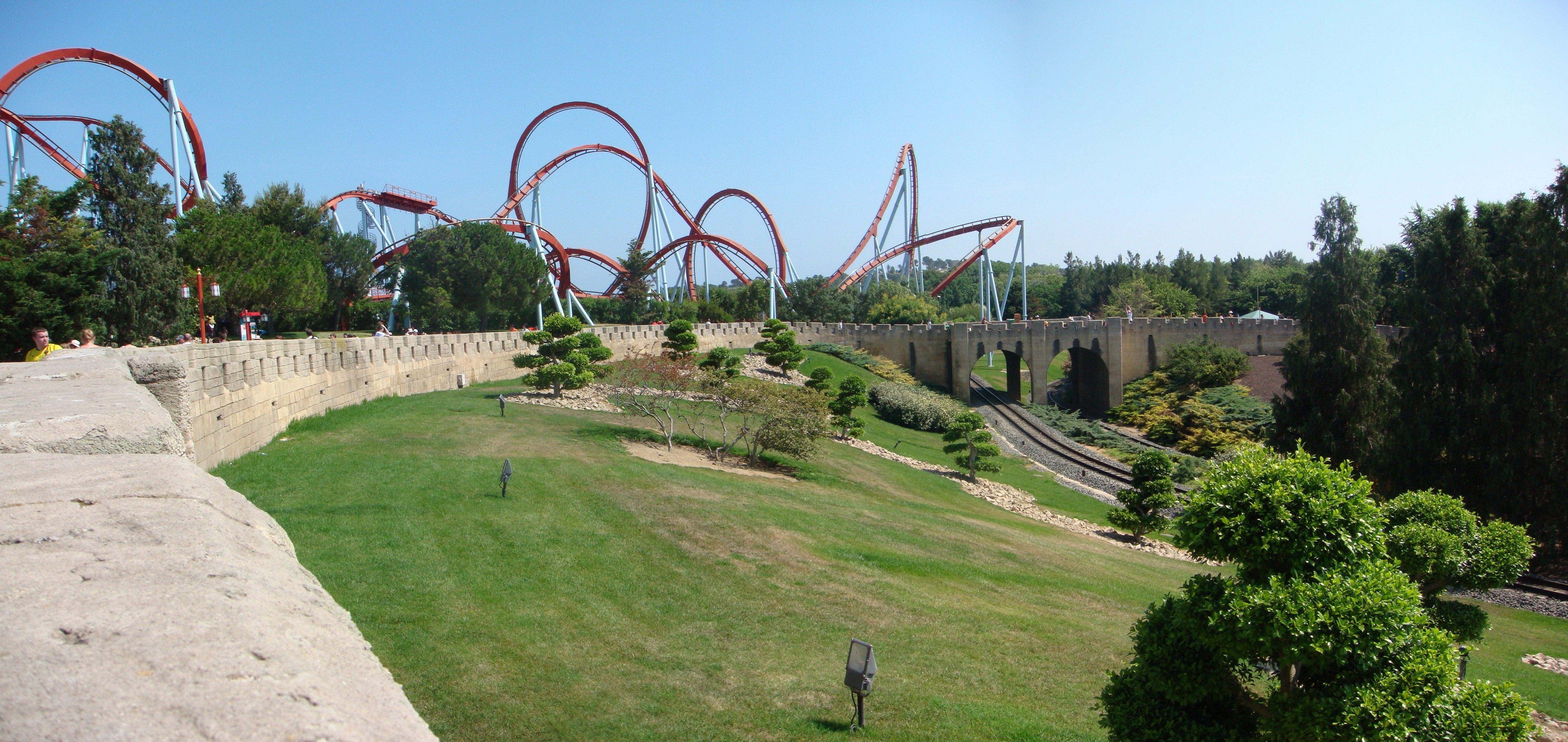 Panoramic view.